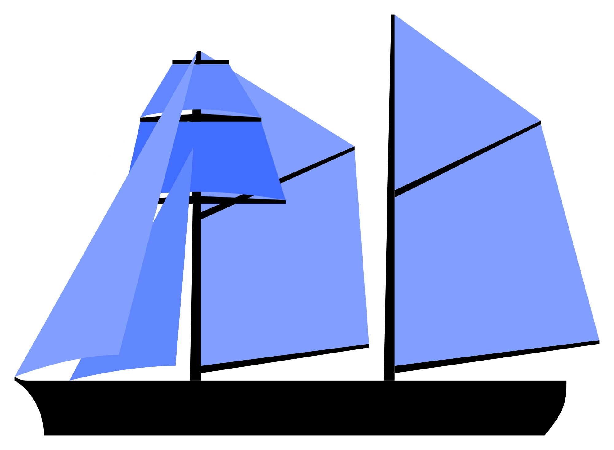 Diagram of a topsail schooner, shown with two square-rigged sails and only two masts